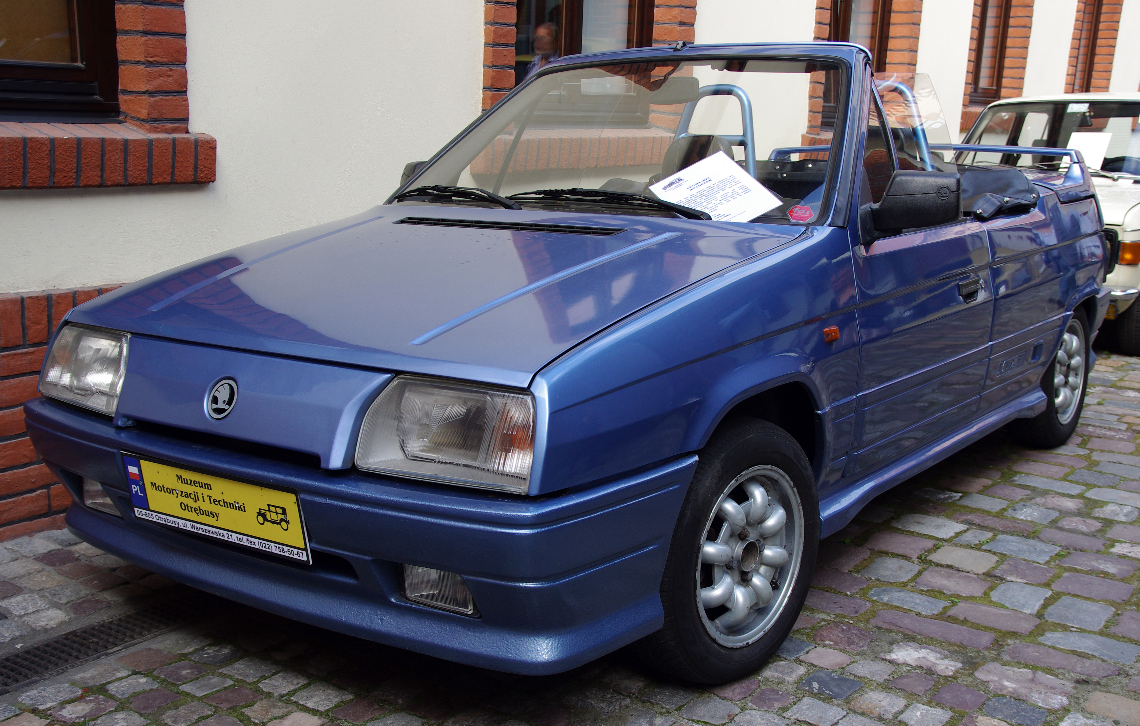 Škoda MTX Roadster at the Classic Moto Show in Kraków